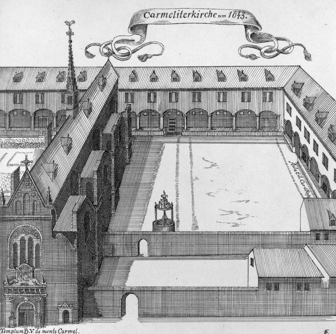 Karmeliterkloster und Kirche um 1643, Kupferstich, rba_093628.